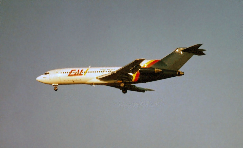 Congo Airlines B727-30 9Q-CRG